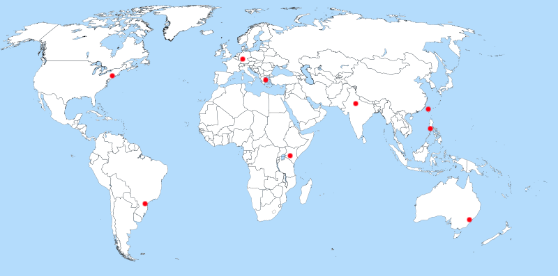 Map of centres of the Ananda Marga new religious movement worldwide.